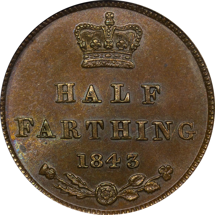 The reverse of a Half Farthing issued in Great Britain in 1843. This coin is encapsulated and graded by NGC as uncirculated MS65BN (brown).